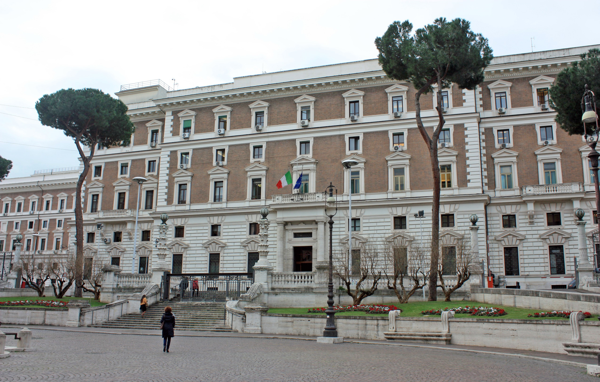 Rome, the Palazzo del Viminale